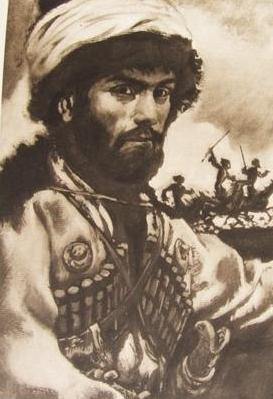 Illustration to Leo Tolstoy's «Hadji-Murat» by Eugene Lanceray